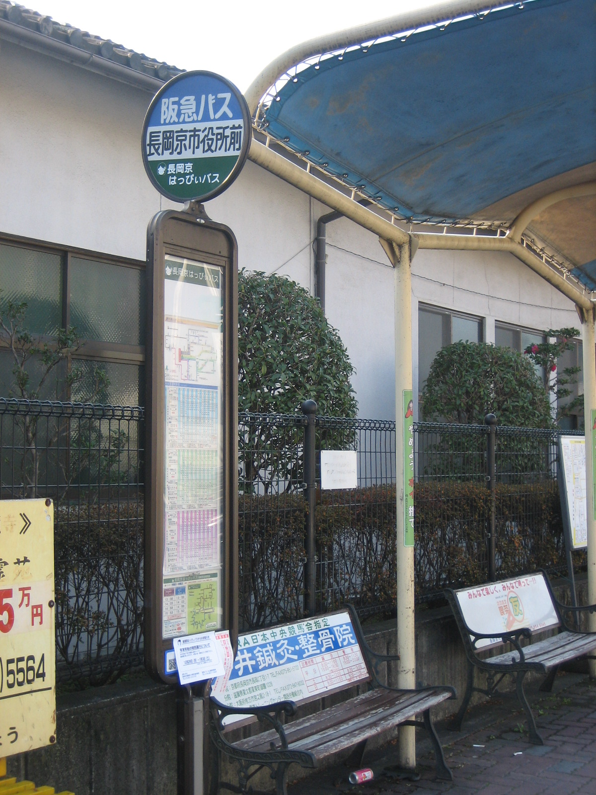 Hankyu Bus and Nagaokakyo Happy Bus Nagaokakyo-shiyakusho-mae (Nagaokakyo City Hall) Bus Stop